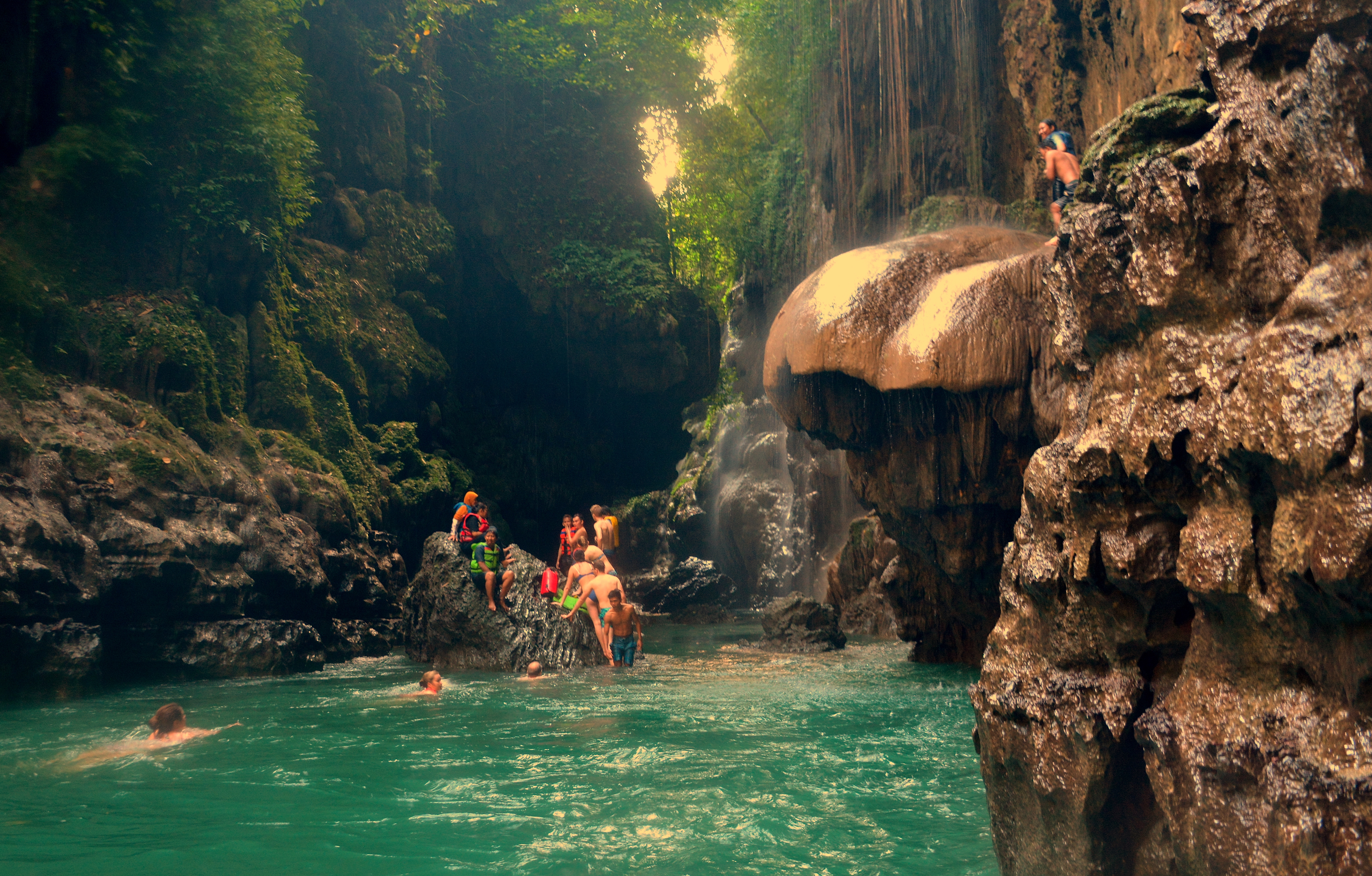 Visitors rest in mushroom-shaped rock before proceeding their journey to the deeper part of the canyon